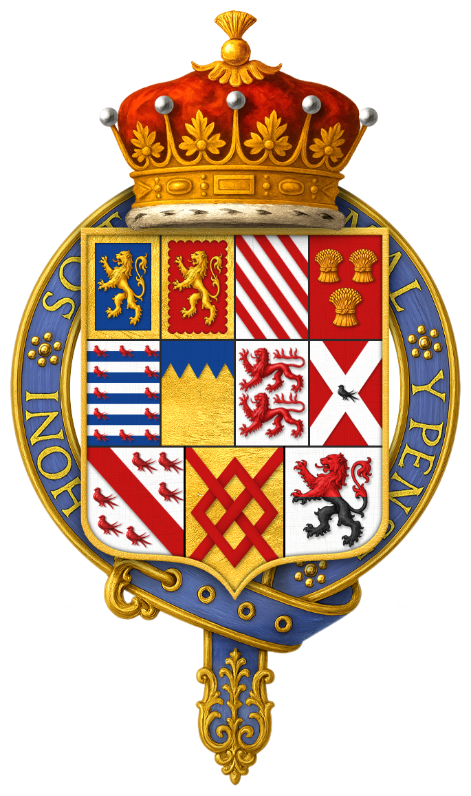 Coat of arms of Sir George Talbot, 6th Earl of Shrewsbury, KG Quartering based on the Talbot window in Haddon Hall, co. Derby